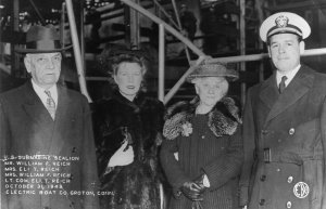 Launching of the USS Sealion II (SS-315), October 31, 1943 (L to R) Mr. William F. Reich, Mrs. Eli T. Reich, Mrs. William F. Reich, . Eli Thomas Reich Taken at the Electric Boat Co., Groton, Connecticut